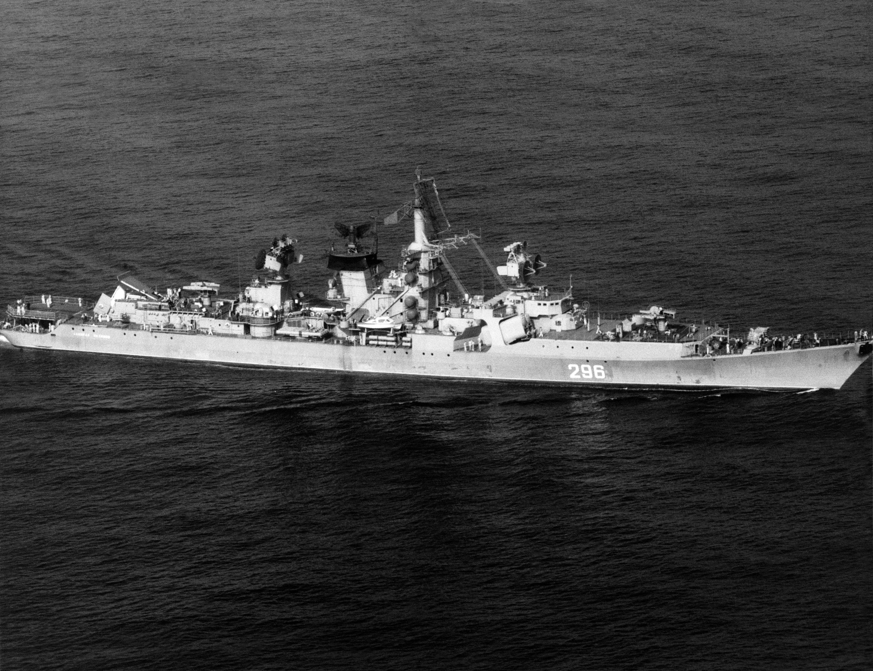 An aerial starboard bow view of a Soviet Kresta II class guided missile cruiser.